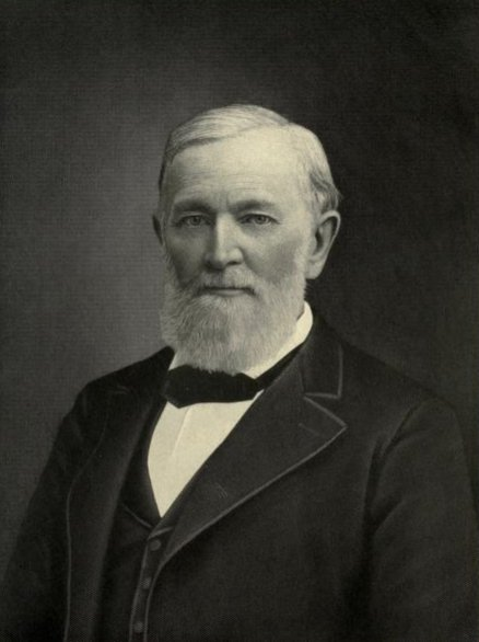 Photo is from the cited book in the Internet Archive: Encyclopedia of the history of Missouri, a compendium of history and biography for ready reference (1901) Author: Conard, Howard Louis Volume: 3 Subject: Missouri -- History Dictionaries; Missouri -- Biography; Missouri -- Bibliography Publisher: New York, Louisville [etc.] The Southern history company, Haldeman, Conard & co., proprietors Language: English Call number: ucb_banc:GLAD-83924711 Digitizing sponsor: MSN Book contributor: University of California Libraries Collection: americana; cdl Description Bibliography of Missouri: v. 1. p. 215-270